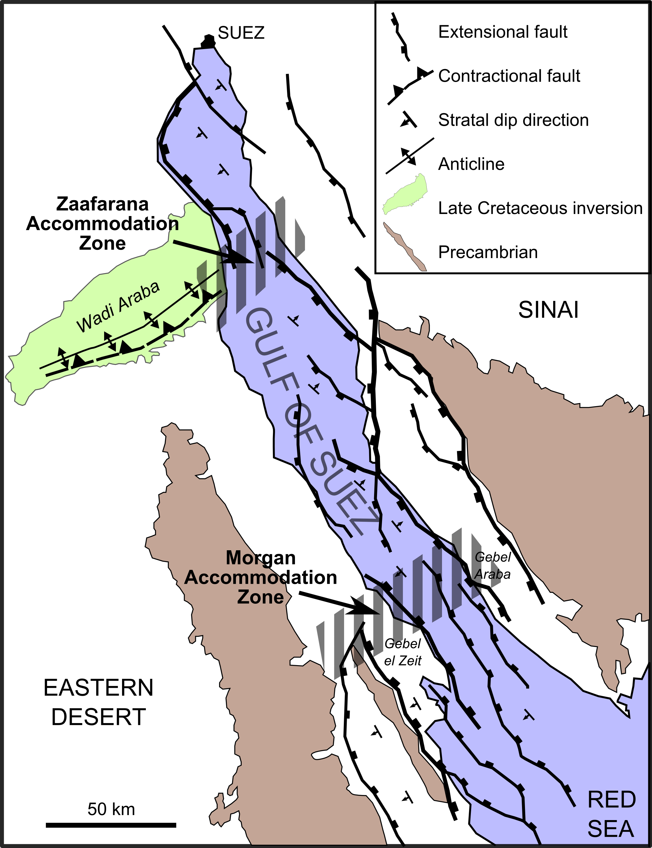 Structural map of the Gulf of Suez rift modified after maps by Bosworth, McClay, Younis and various others